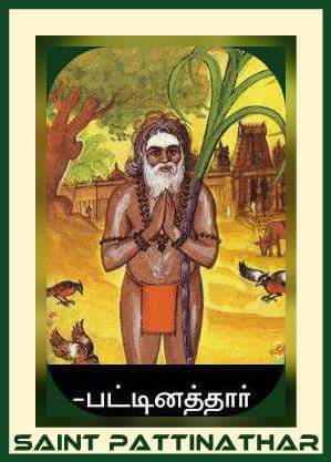 Artistic depiction of Tamil poet and saint Pattinathar